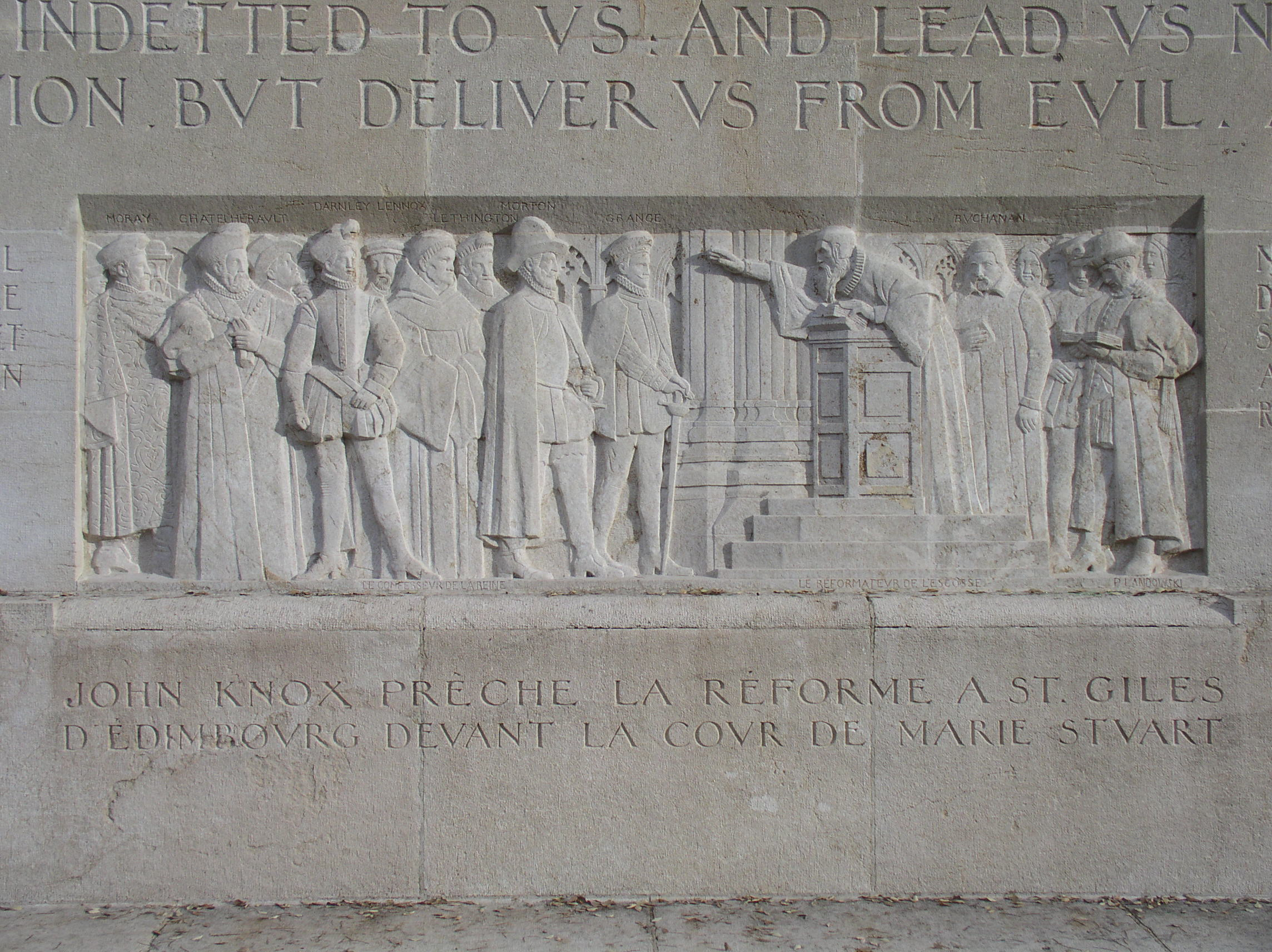 Detail of John Knox in Edinburgh at the Reformation Wall in Geneva